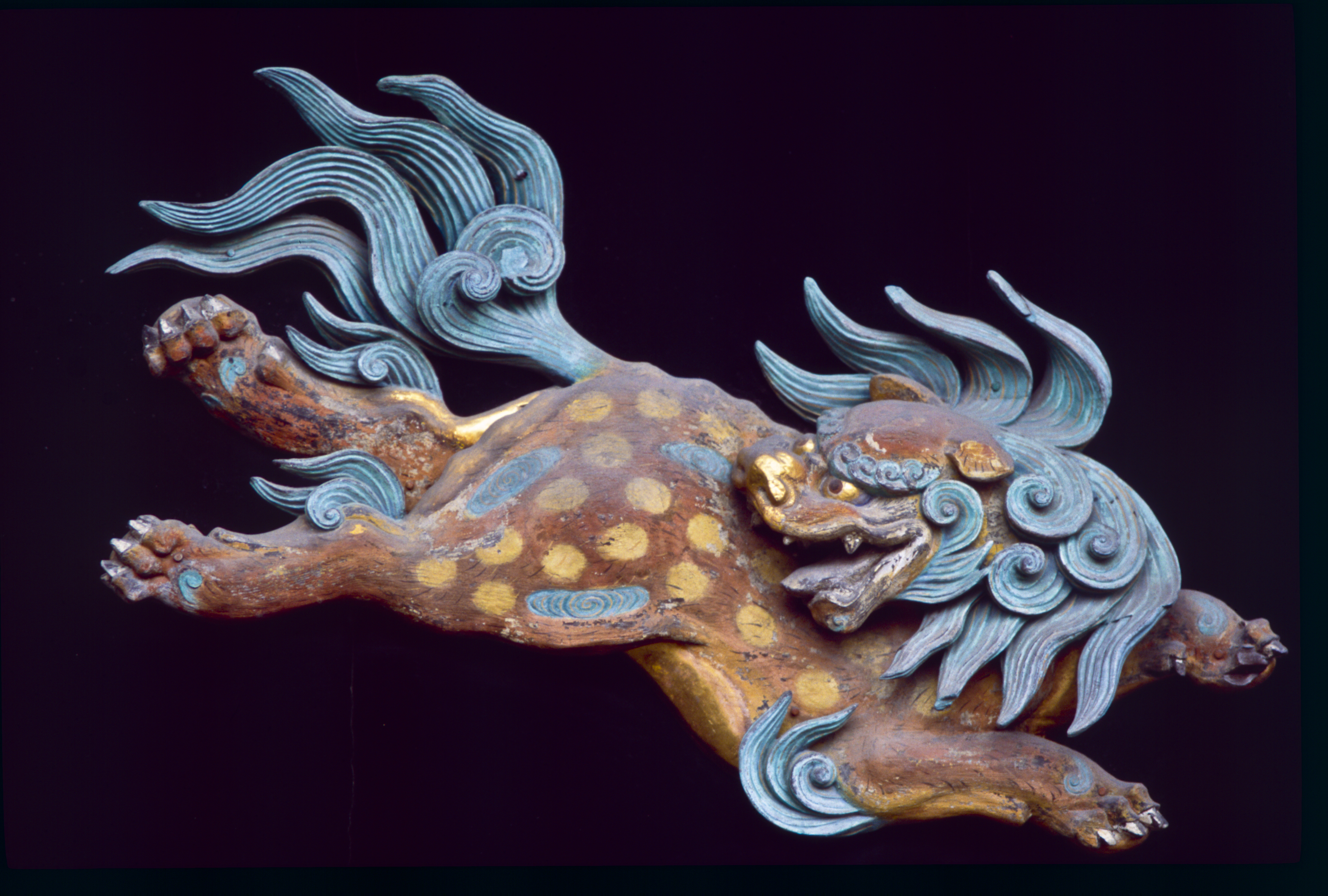 Karamon (detail), Nishi Honganji, Kyoto, Japan; National Treasure